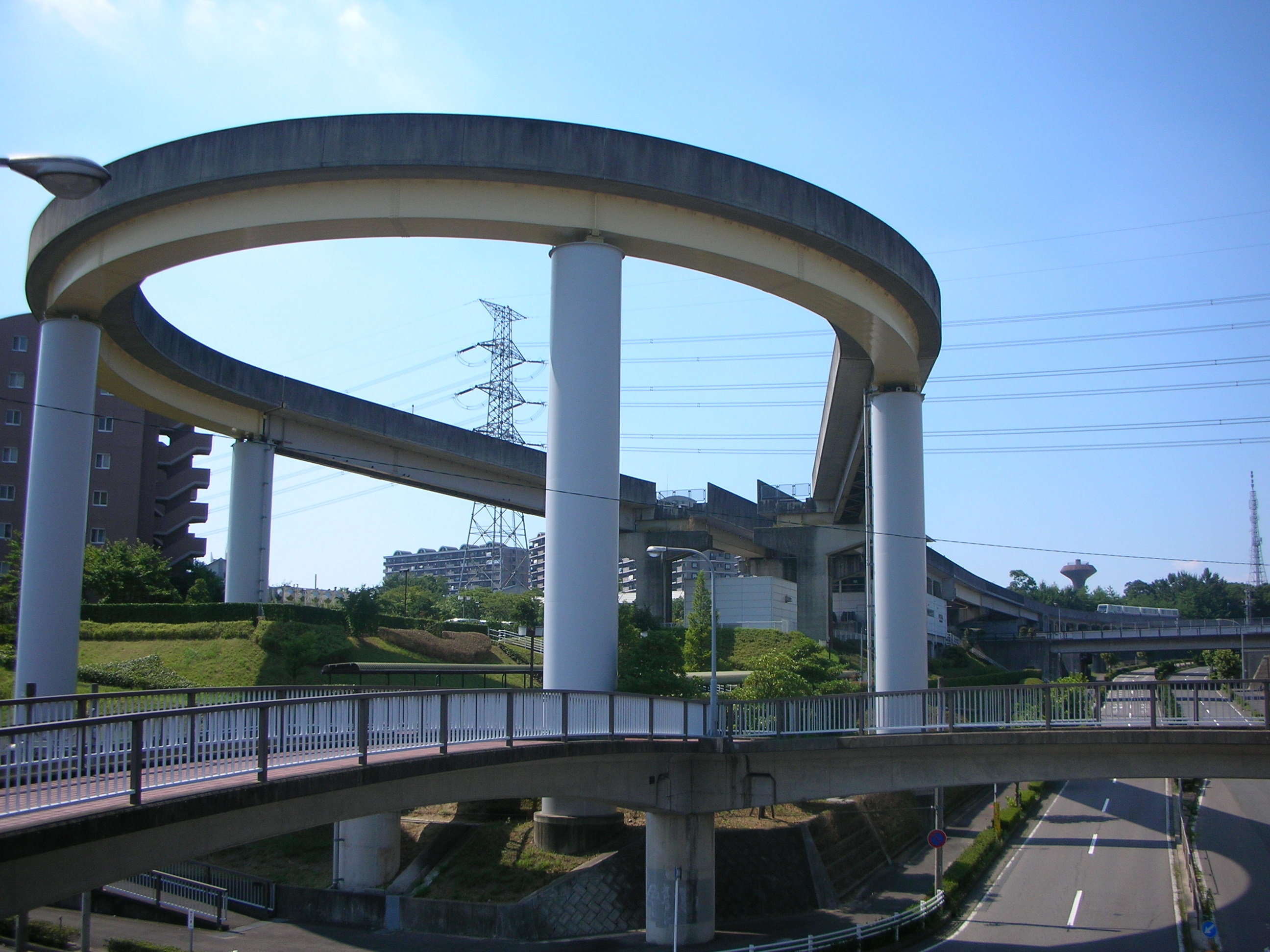 Loop track at Tokadai Higashi Station on the Tokadai New Transit